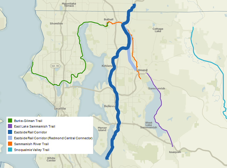 Eastside Rail Corridor route. Created with Tableau.